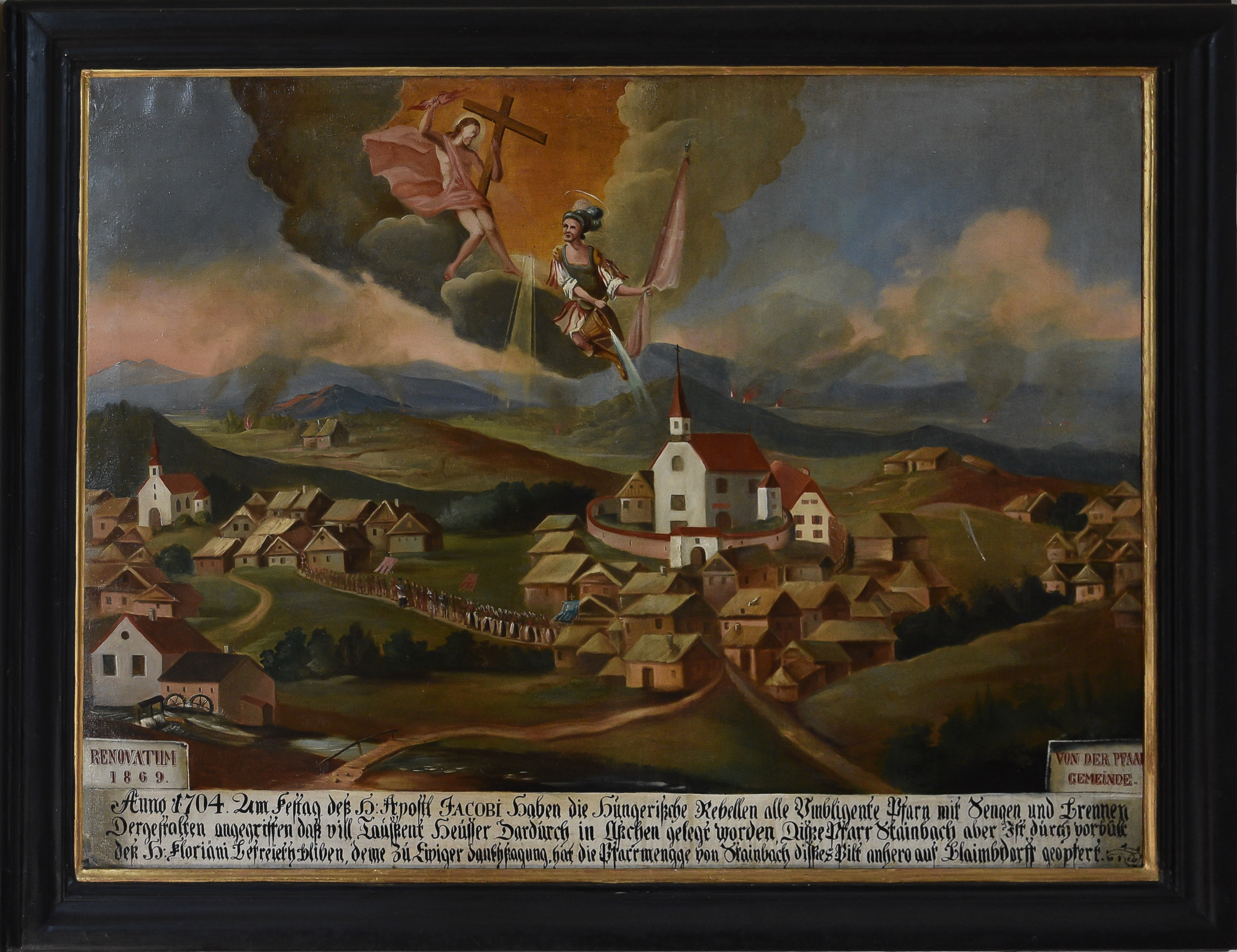 Church Rochus und Sebastian Blaindorf Feistritztal Interior